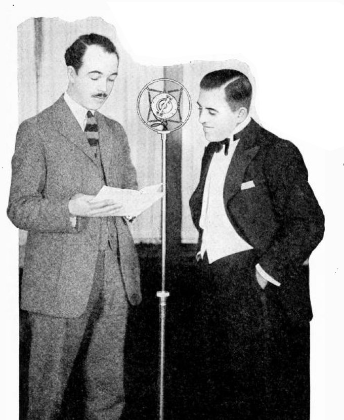 An interview with bandleader George Olsen (right) in 1926 at NBC's flagship radio station WJZ in New York City. The microphone is a Western Electric double button microphone, very widely used for broadcasting and recording in the 1920s. It was sometimes called a "ring and spring" microphone because the microphone unit is suspended by springs in the center of a steel ring to prevent vibrations of the stand from being conducted to the element.